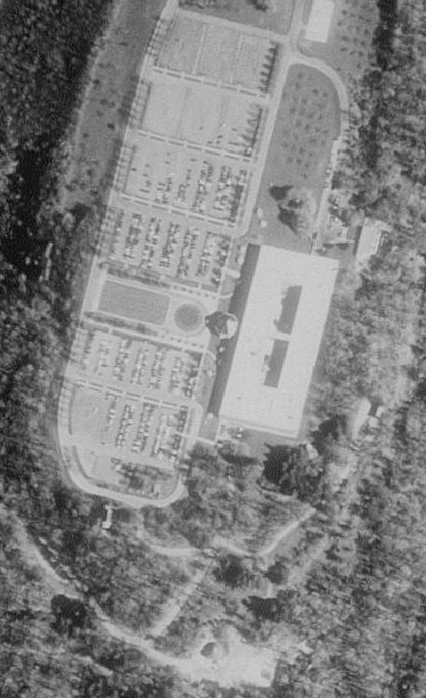 Aerial via of the IBM headquarters buildings from 1961-1997